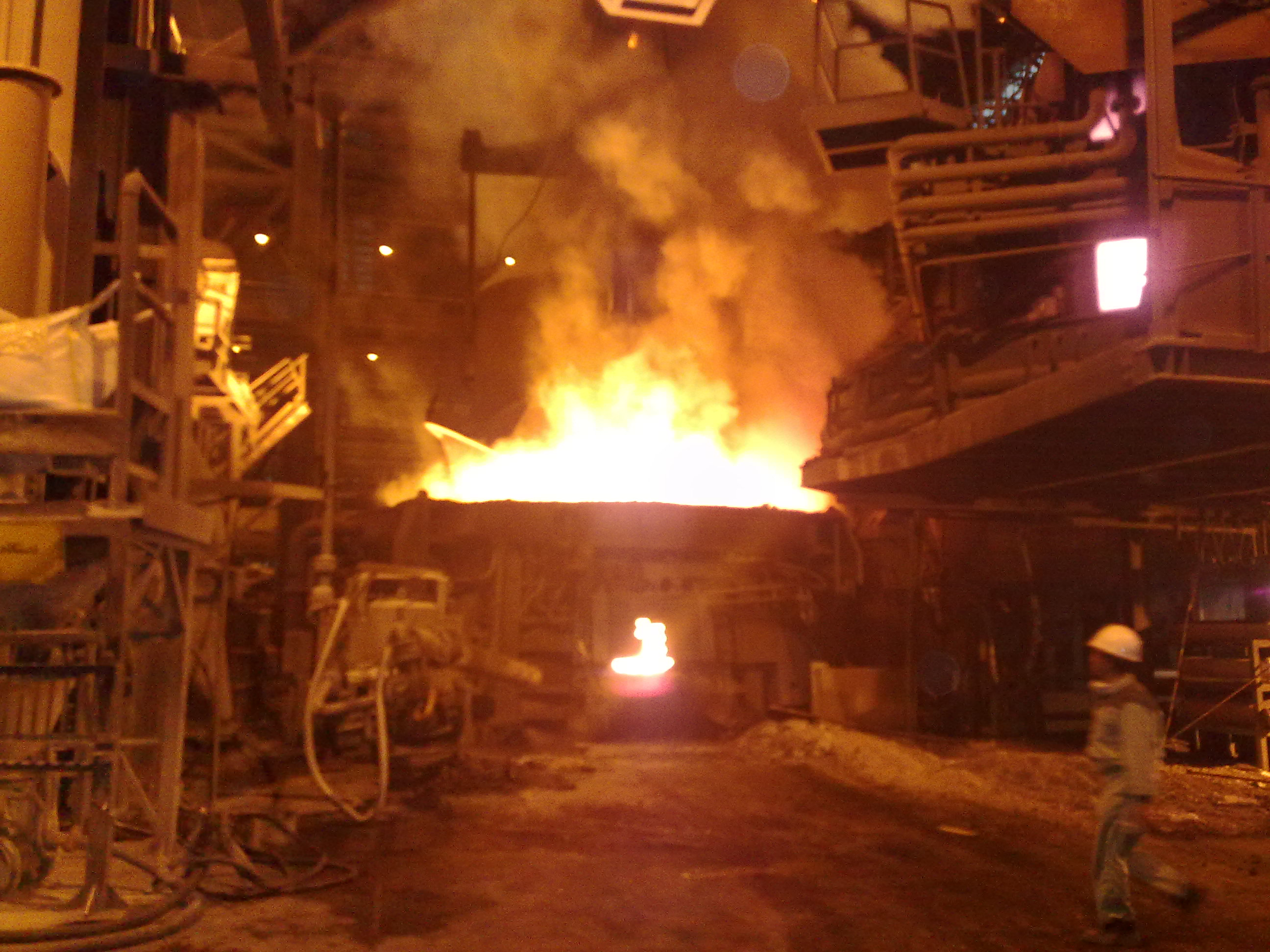 Foolad Mobarakeh Steel Mill Isfahan